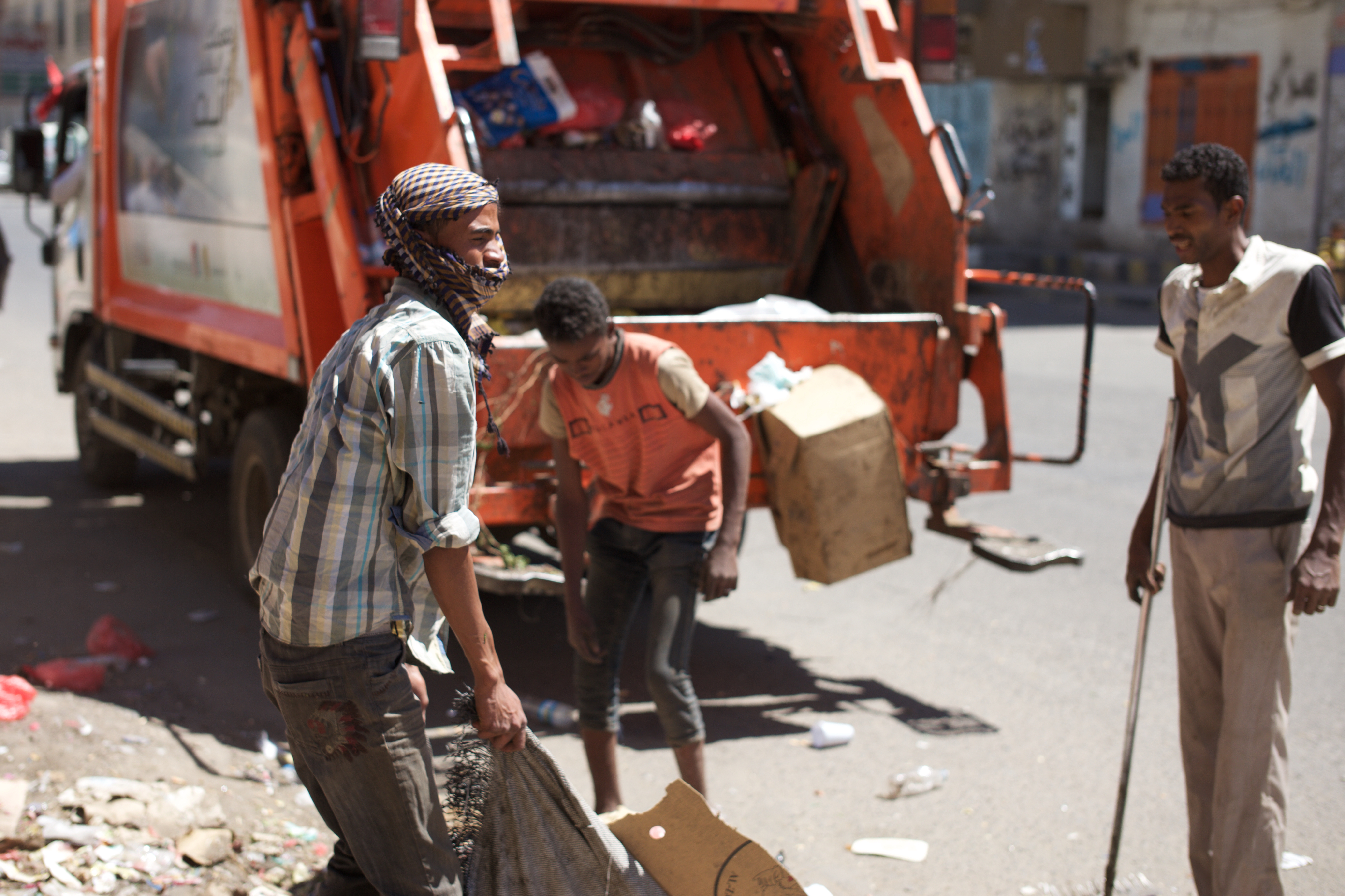 "Without there has been no rubbish collection for weeks, it has piled up in the middle of the streets. A risk to health. Now that a little petrol has arrived, for the first time the dustbin lorries have started work." (Original description from Flickr); foto album title on Flickr: "Life in Sana'a"